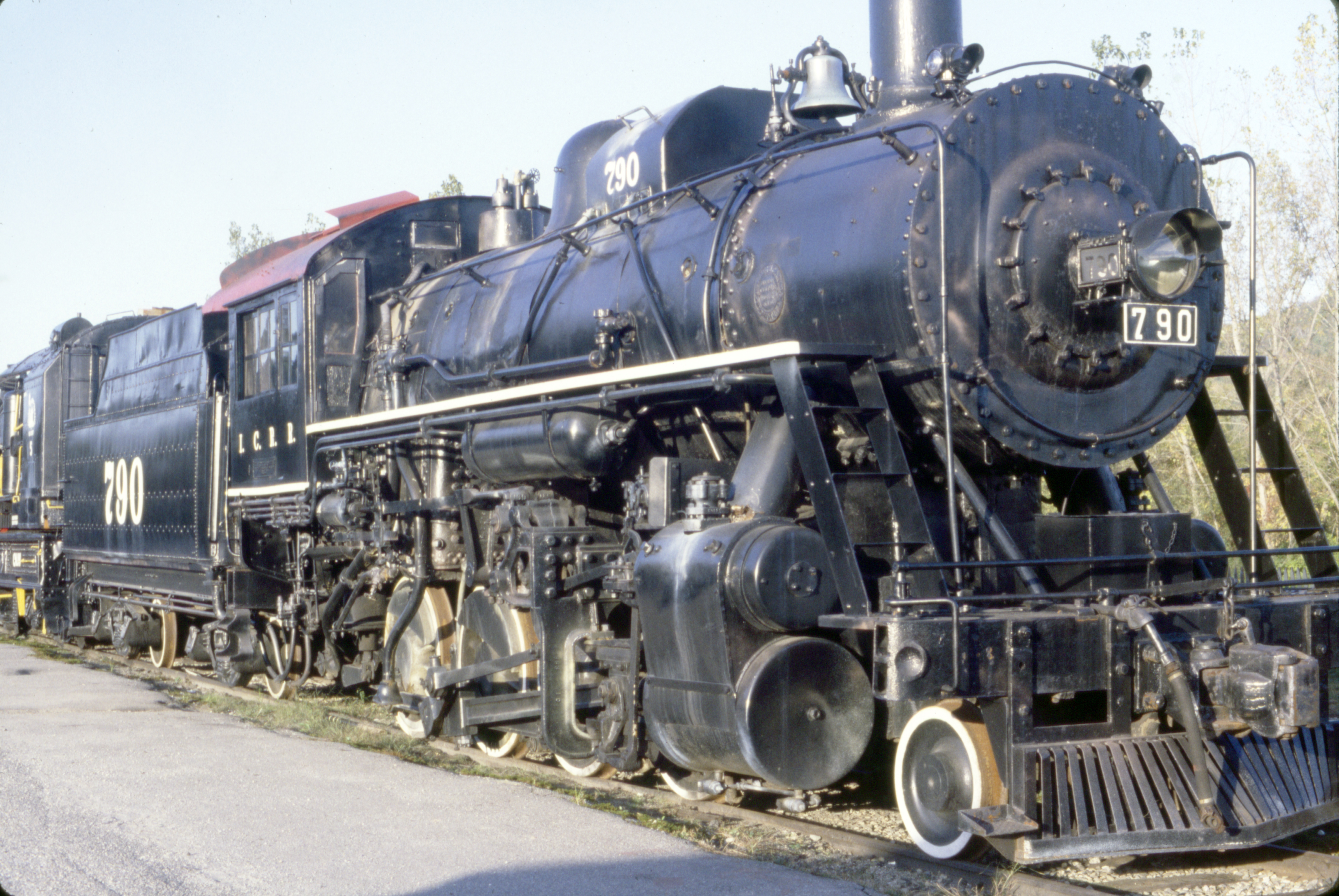 Photograph of Illinois Central Steam Engine 790 on static display in Bellows Falls, Vermont, in October 1983